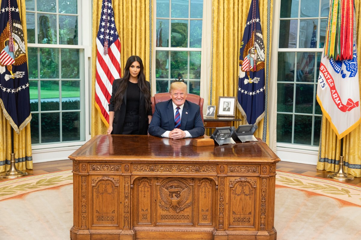 Great meeting with @KimKardashian today, talked about prison reform and sentencing.